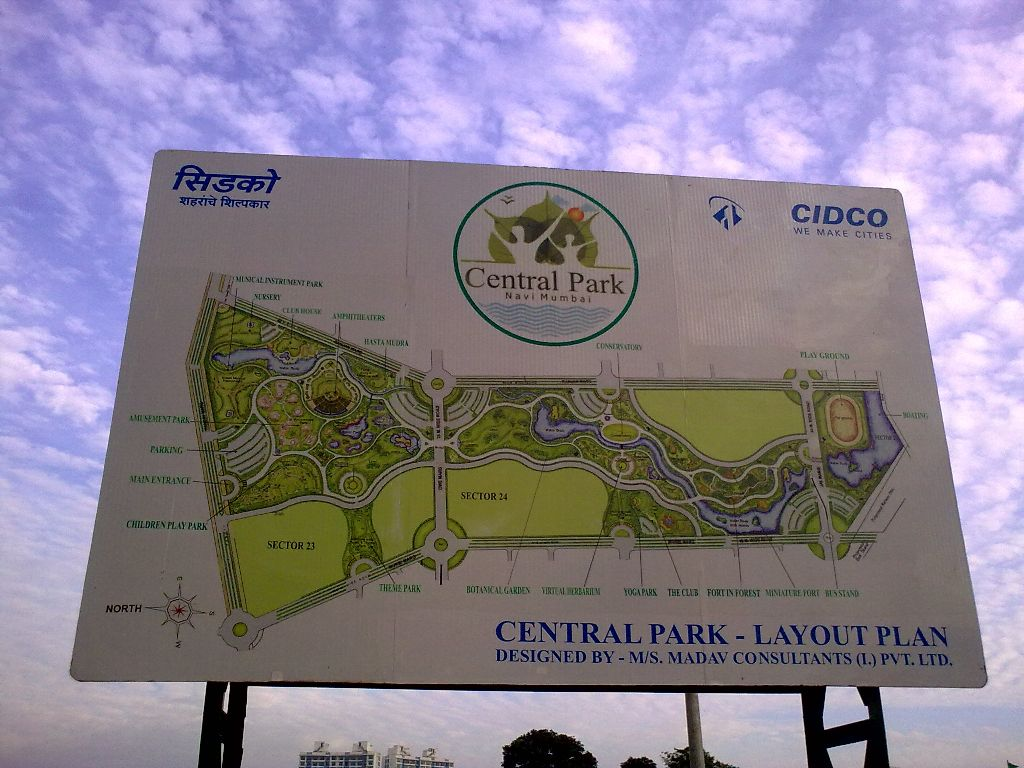 Plan of Central Park, Kharghar